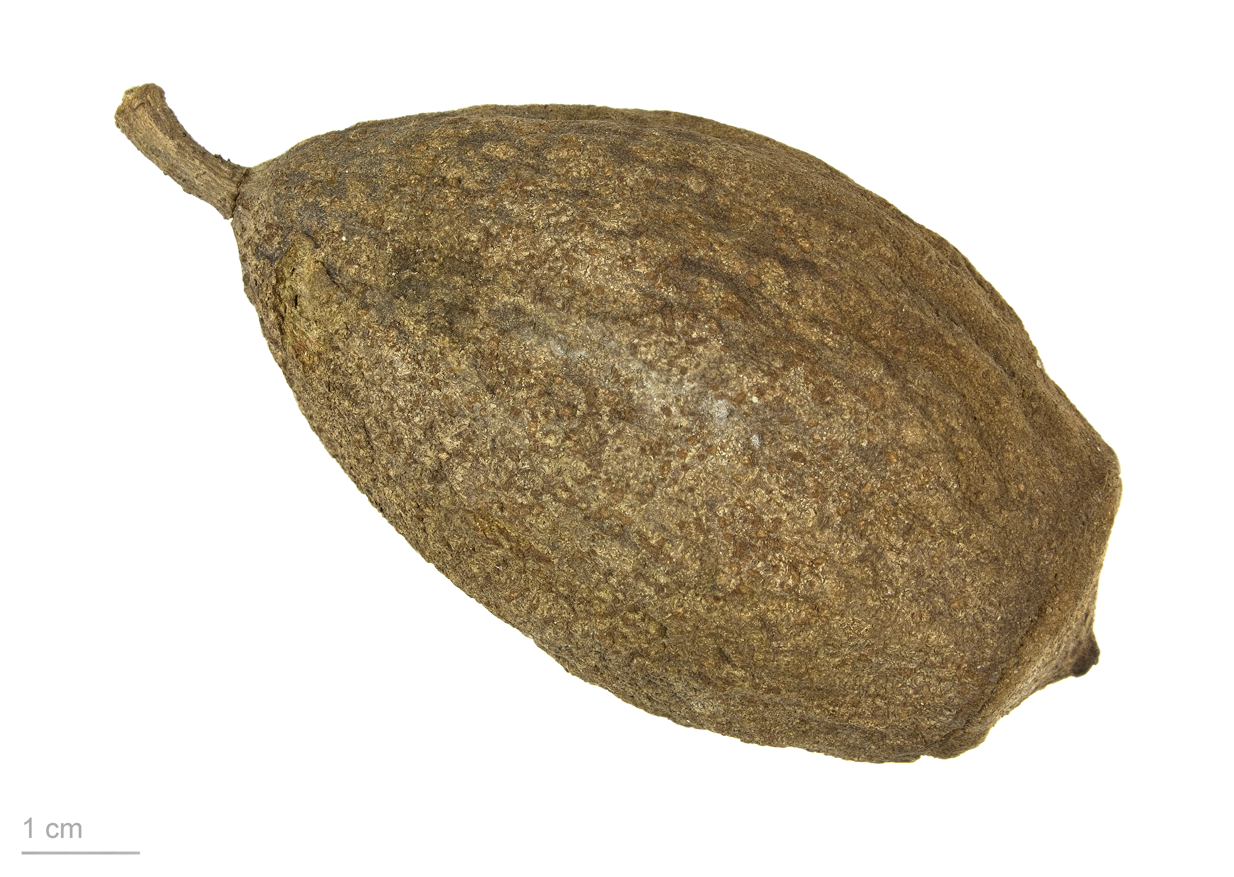 Gustavia superba , fruits and seeds